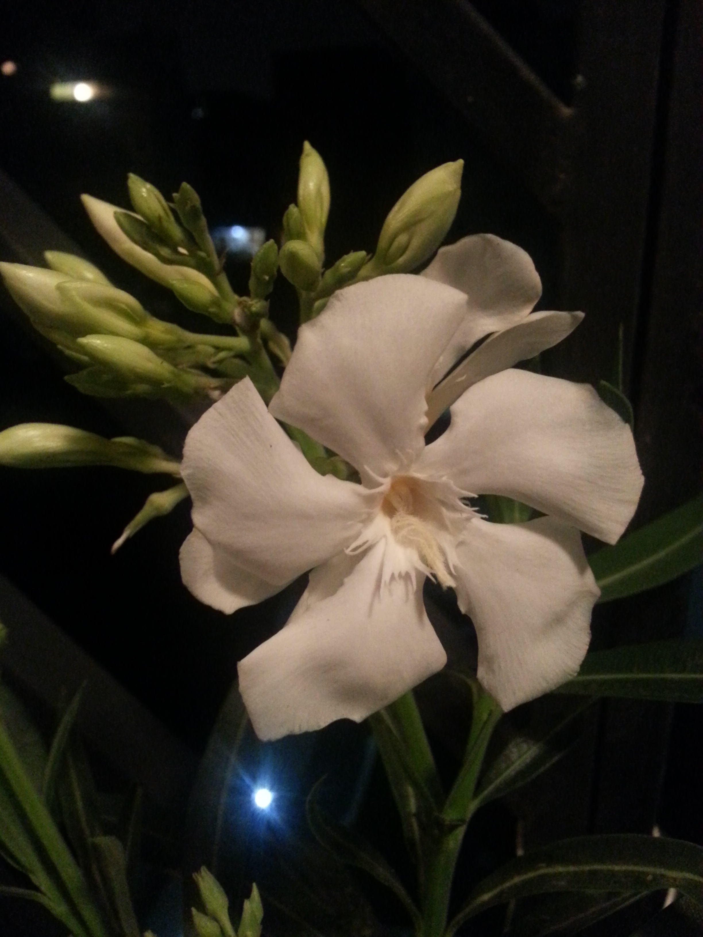 Nerium oleander (Nerium). Cultivar with white flowers. Flowers grow in clusters at the end of each branch.